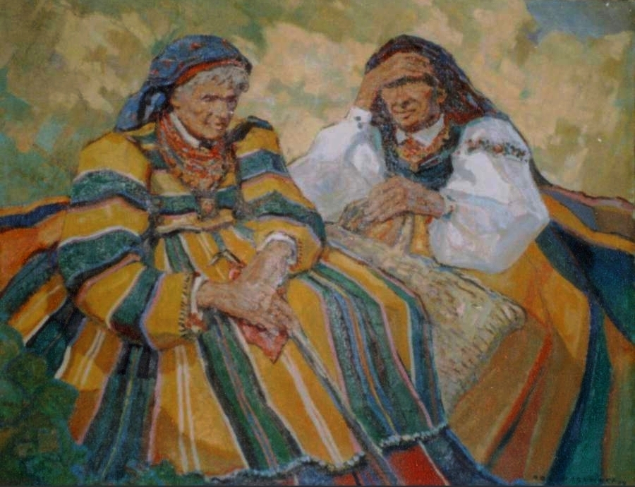 photo of a painting by Zdzislaw Pagowski, featuring women from Lowicz area wearing regional folk costume